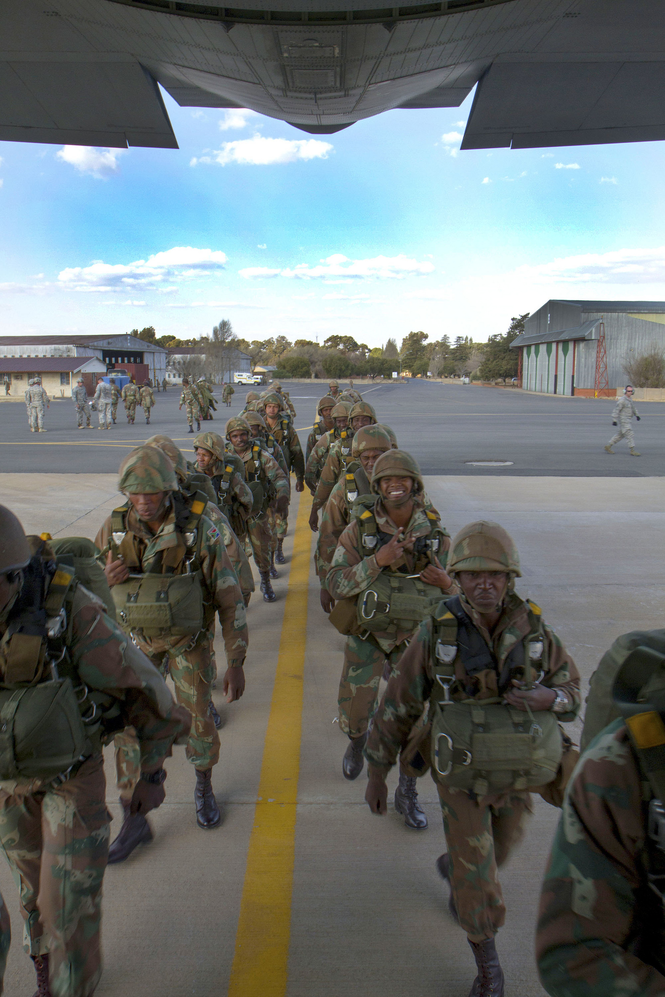 South African soldiers board a C-130 Hercules aircraft for a practice jump at Air Force Base Bloemspruit in Bloemfontein, South Africa, July 23, 2013, in preparation for exercise Shared Accord 2013. Shared Accord is an annual U.S. Africa Command-sponsored, U.S. Marine Corps Forces Africa-planned combined military and humanitarian exercise that is designed to strengthen relationships between the U.S. and African partner nations.